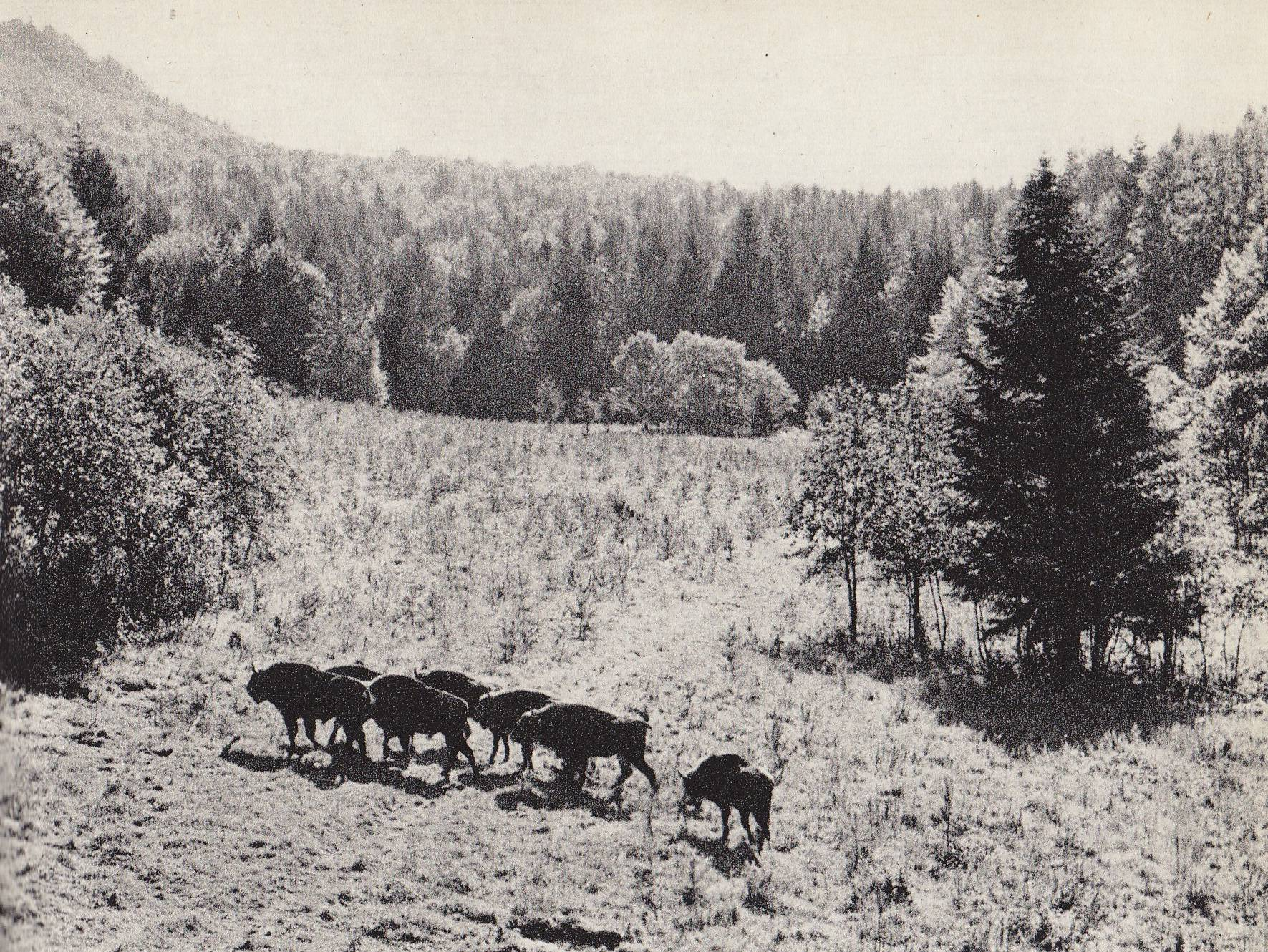 Wisents in Bieszczady